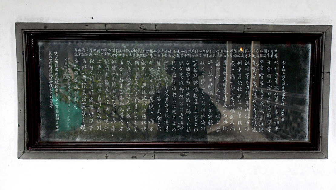 Preface to Lanting Poems caligraphy tablet of Song philosopher Zhu Xi